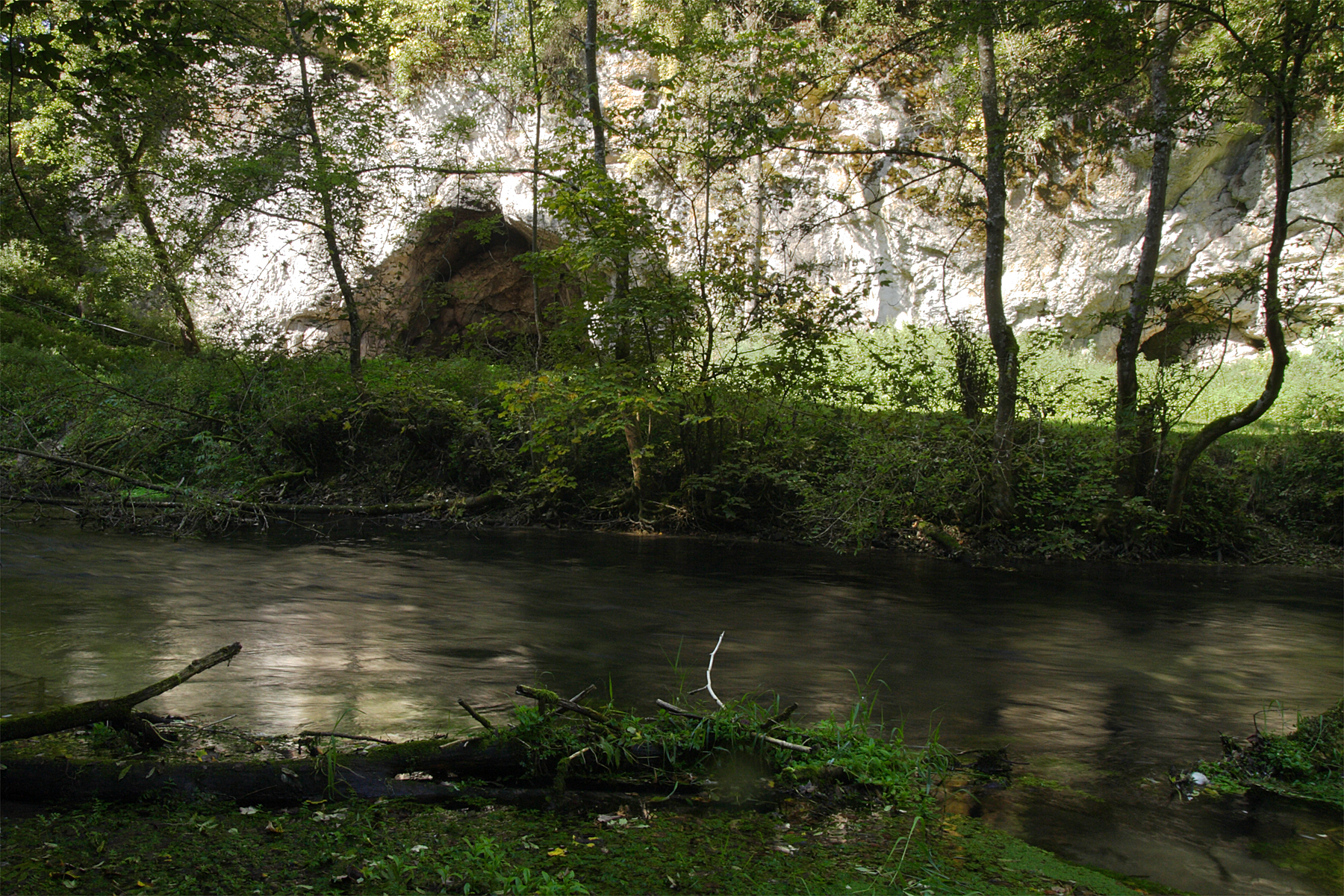 "Bittelschießer Täle", N of Bingen/Sigmaringen, Swabian Alb. River Lauchert removed moraines of the last glacial period Rhine Glacier (about 140ka) and then cut a mass limestone, forming a small canyon, 80m deep, 20-30m wide. There are many joints and caves in the walls of the canyon.